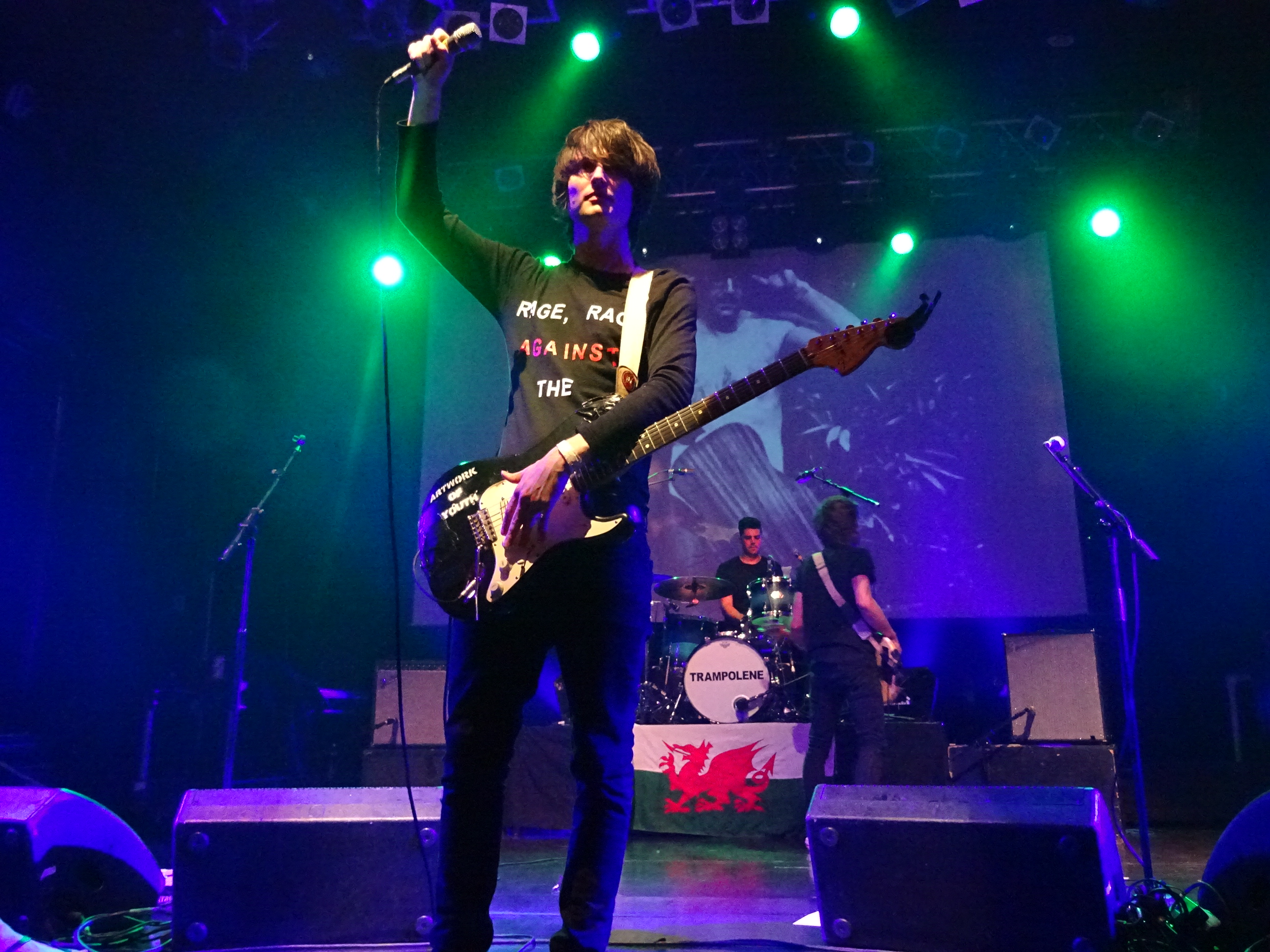 Trampolene at KOKO, London. July 2015